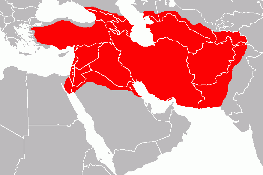 Ninus.png Possible extension of Ninus' Empire superimposed on modern-day boundaries